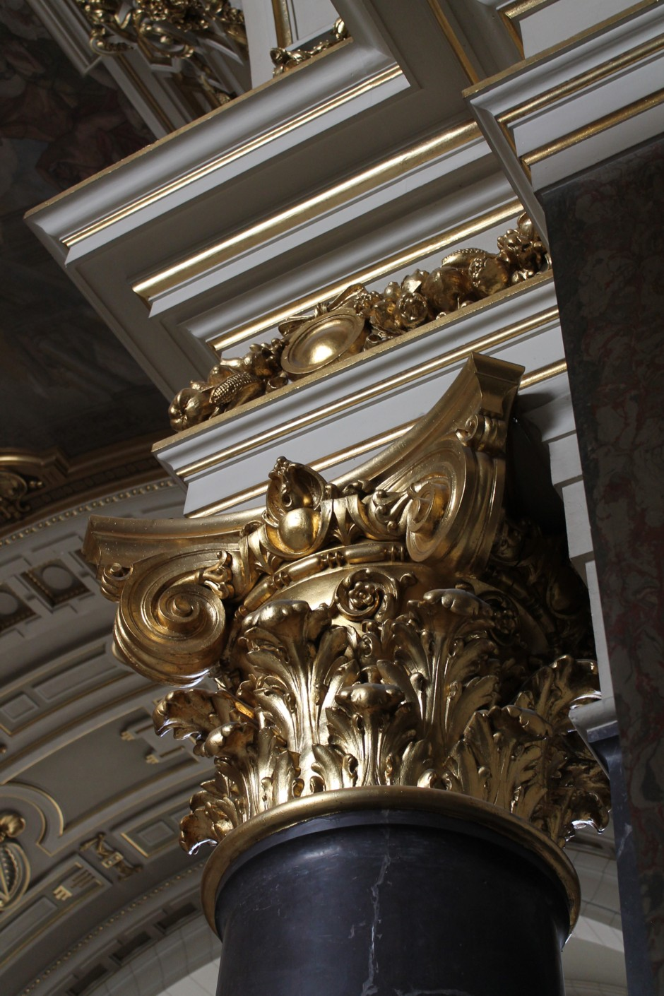 Composite capital, Palace of Justice (today Ethnographic Museum), Budapest